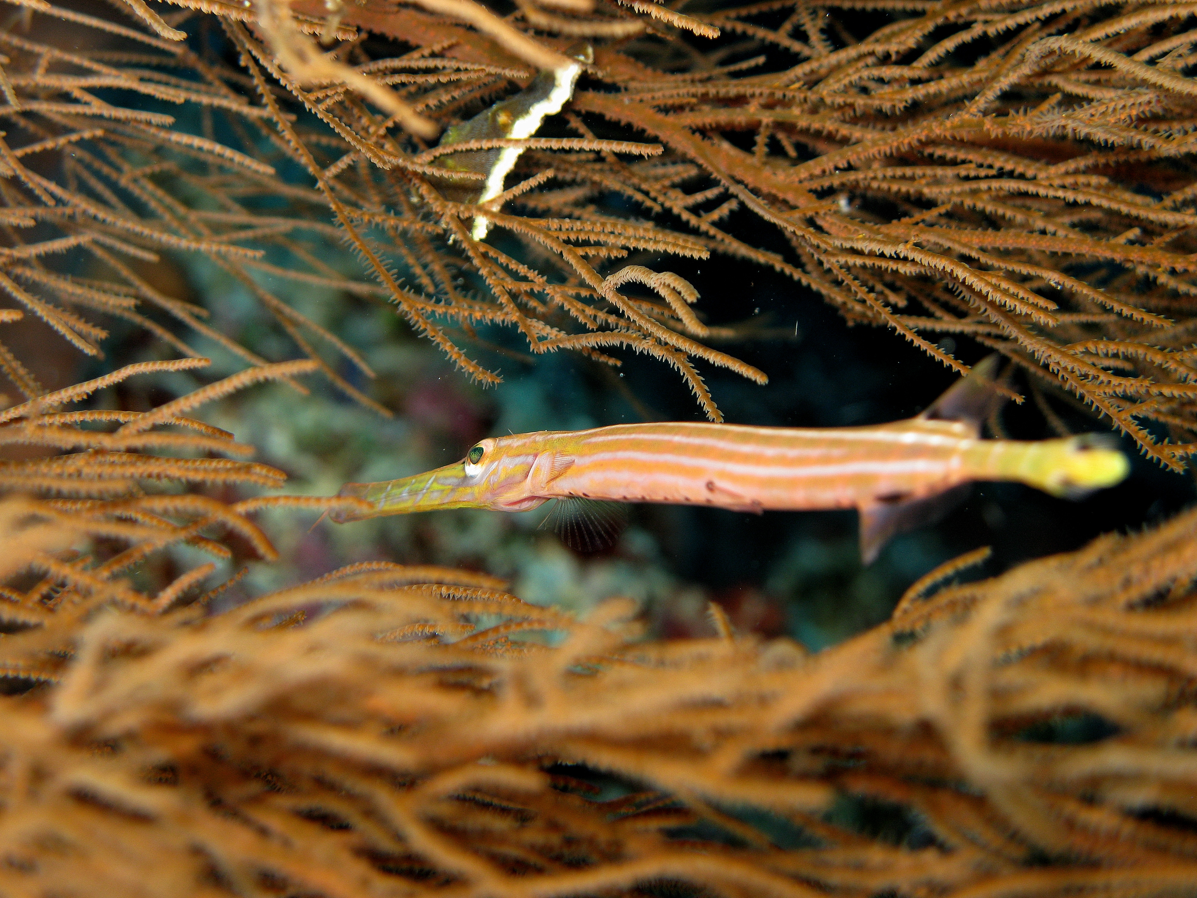 Trumpetfish (Aulostomus chinensis)